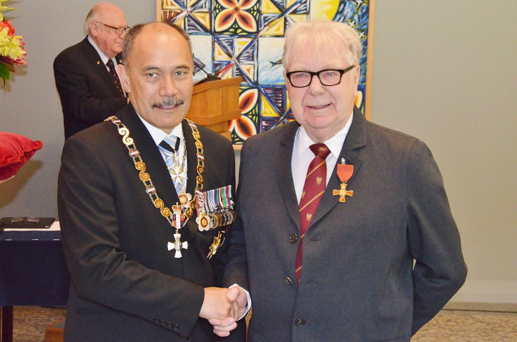 Max Gimblett (right), after his investiture as ONZM, for services to art, by the governor-general, Sir Jerry Mateparae, on 27 August 2015